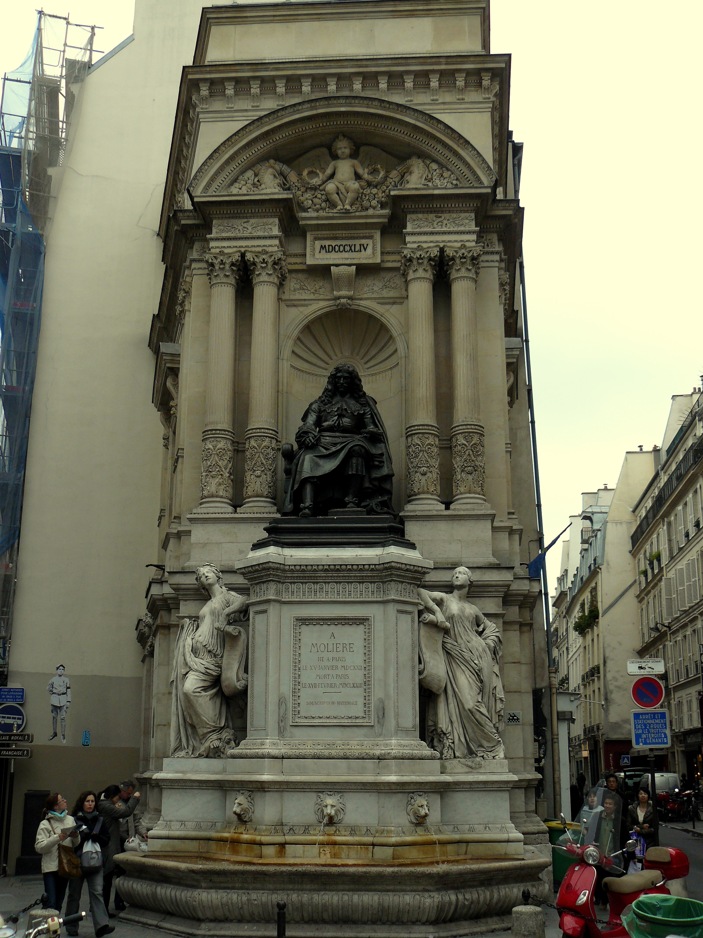 Fountain "Molière" 1st arrd. in Paris. Built in 1844 - the bronze statue of Molière is by Bernard-Gabriel Seure, and the two stone figures of Light Comedy and Serious Comedy are by James Pradier